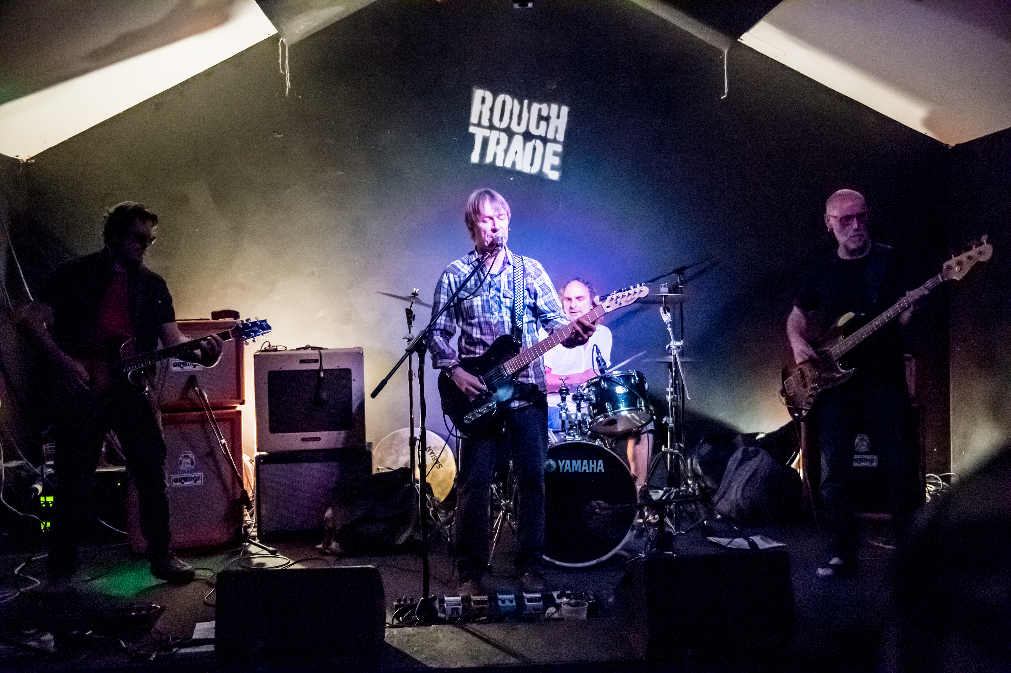 Moscow Circus performing at Rough Trade, Nottingham. Pictured left to right: Mark Paulson, Jonathan Beckett, Tom Parratt, Andrew Mainman.